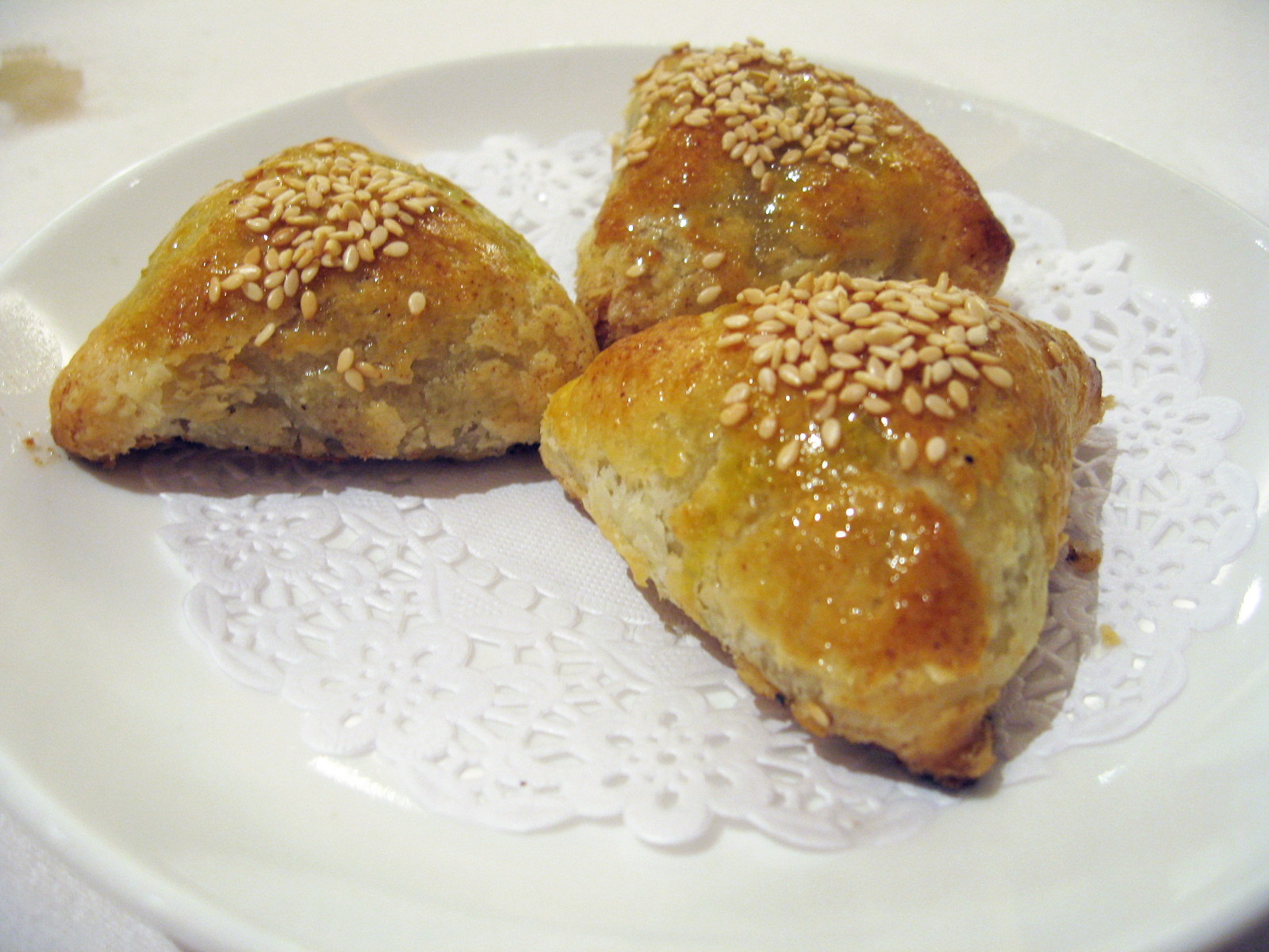 Char siew sou.